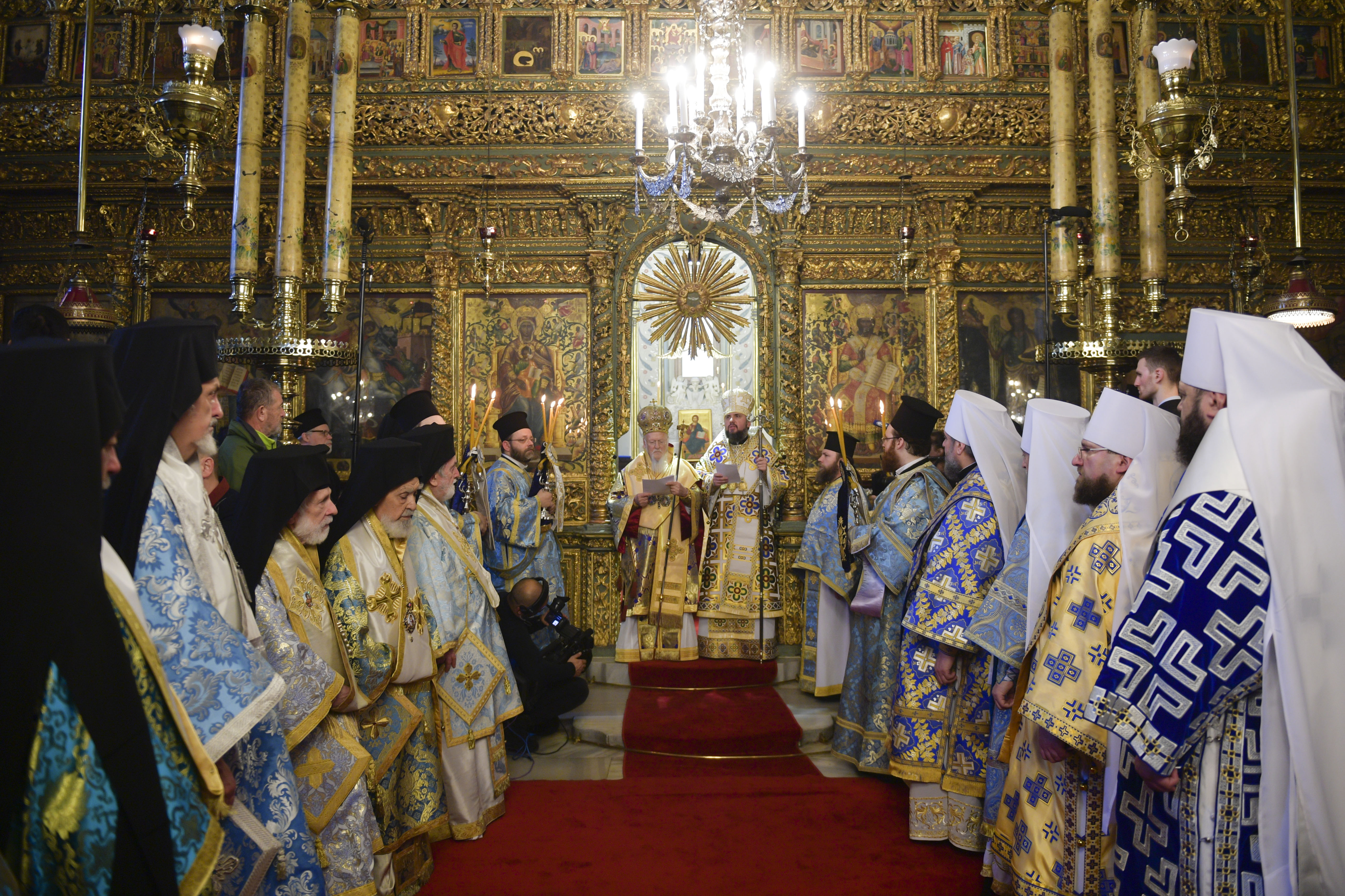 Working visit of the President of Ukraine Petro Poroshenko to the Turkish Republic